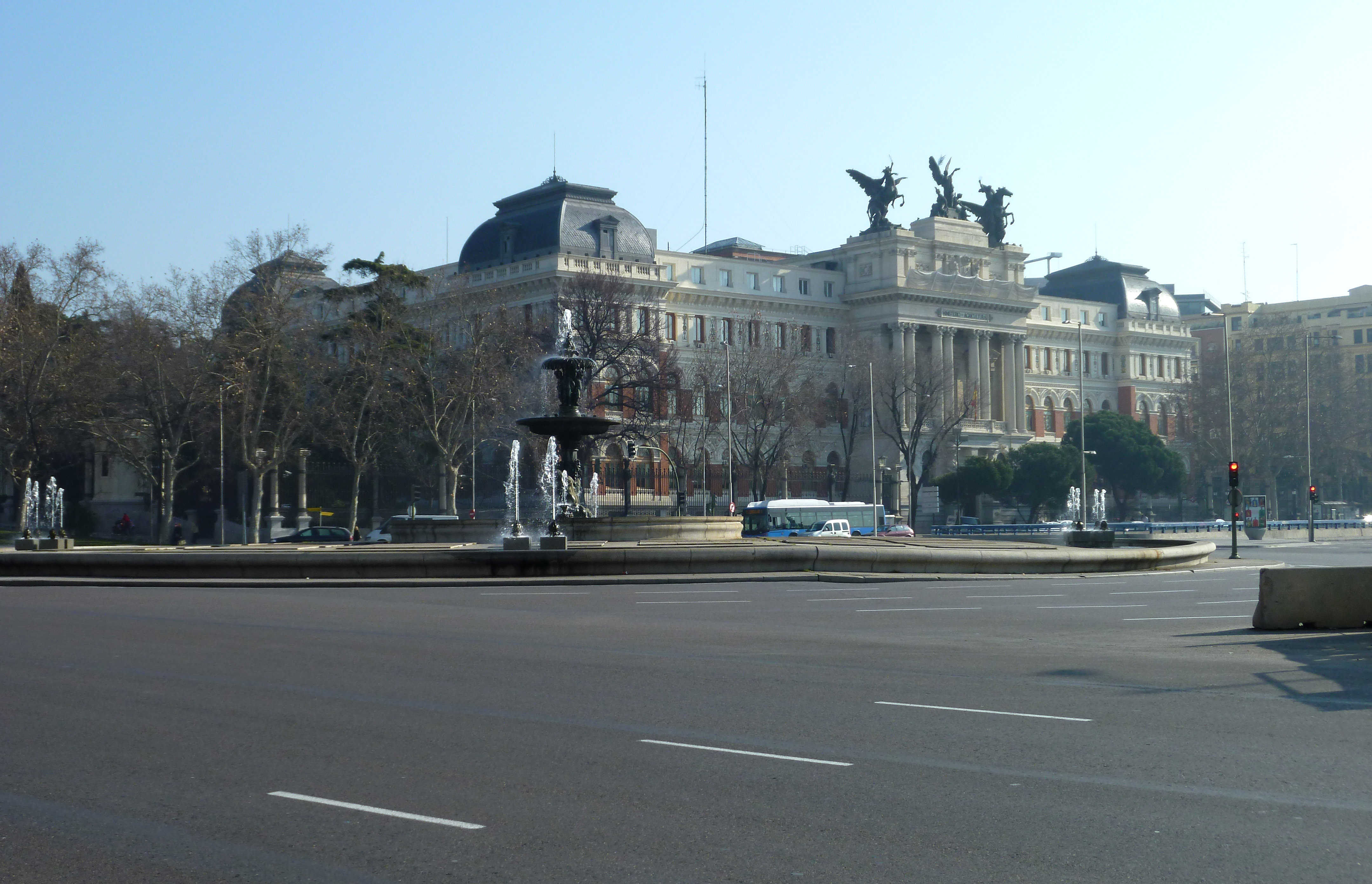 View of Spanish Ministry of Agriculture headquarters (Madrid) from the north-west angle (Plaza del Emperador Carlos V, square).